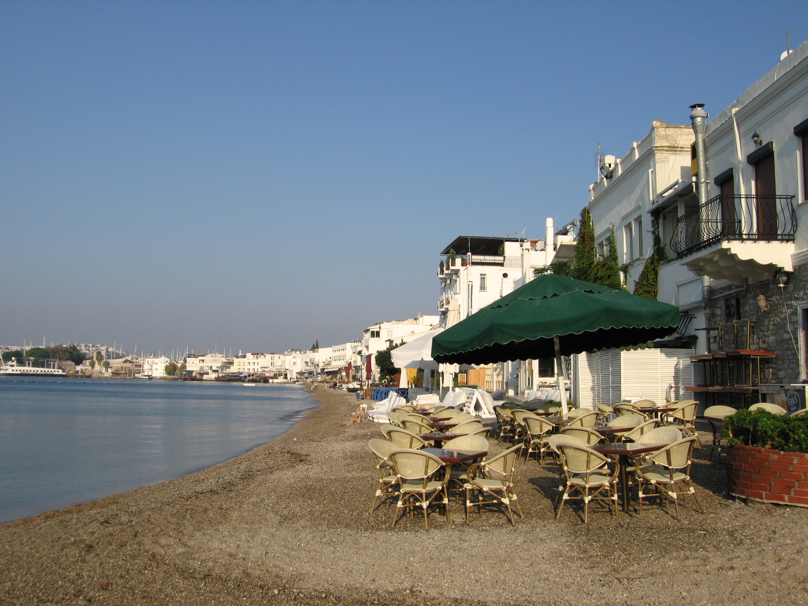 Seaside at Bodrum, Turkey